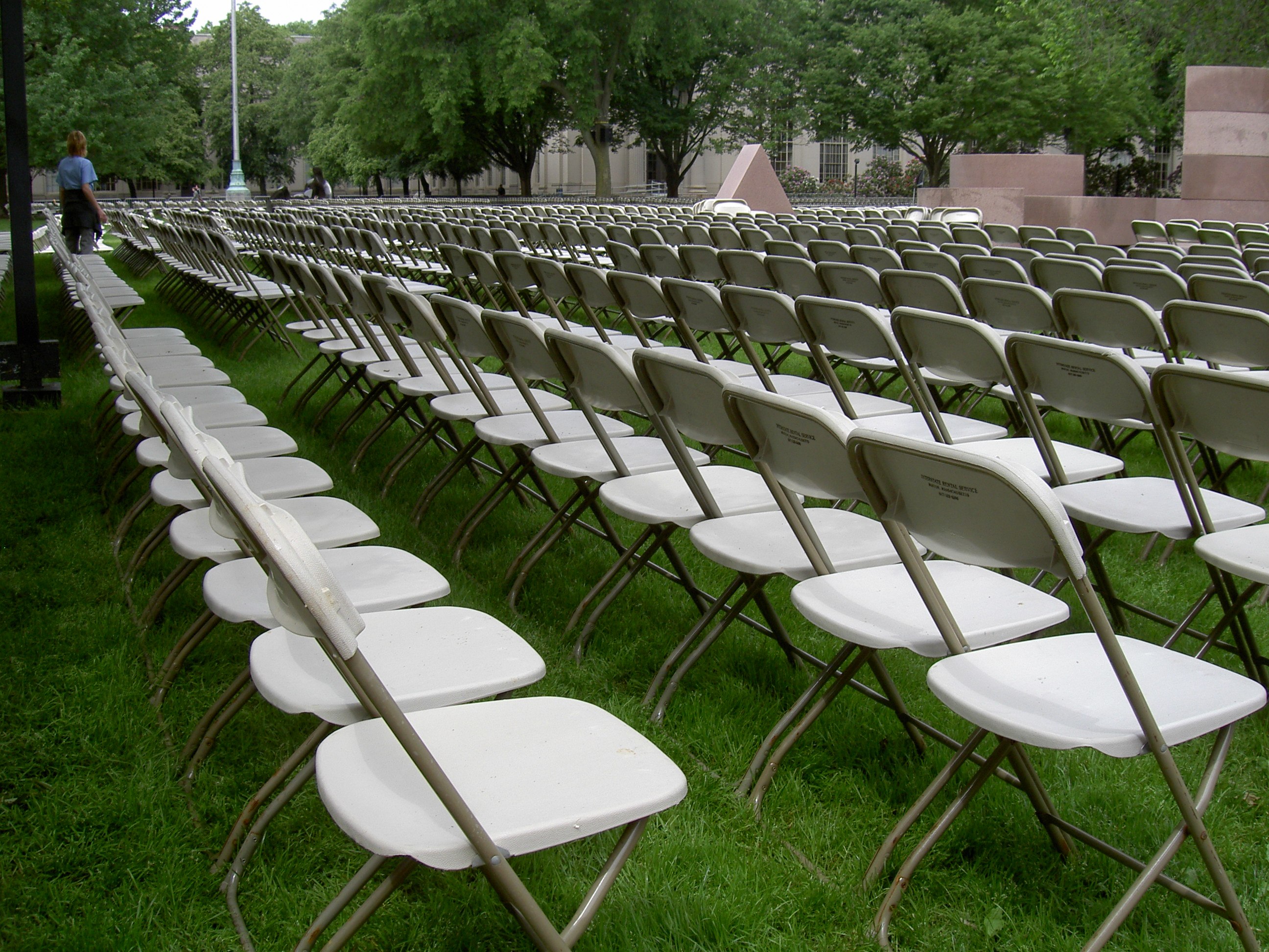 Chairs on the lawn of MIT, preparing for commencement